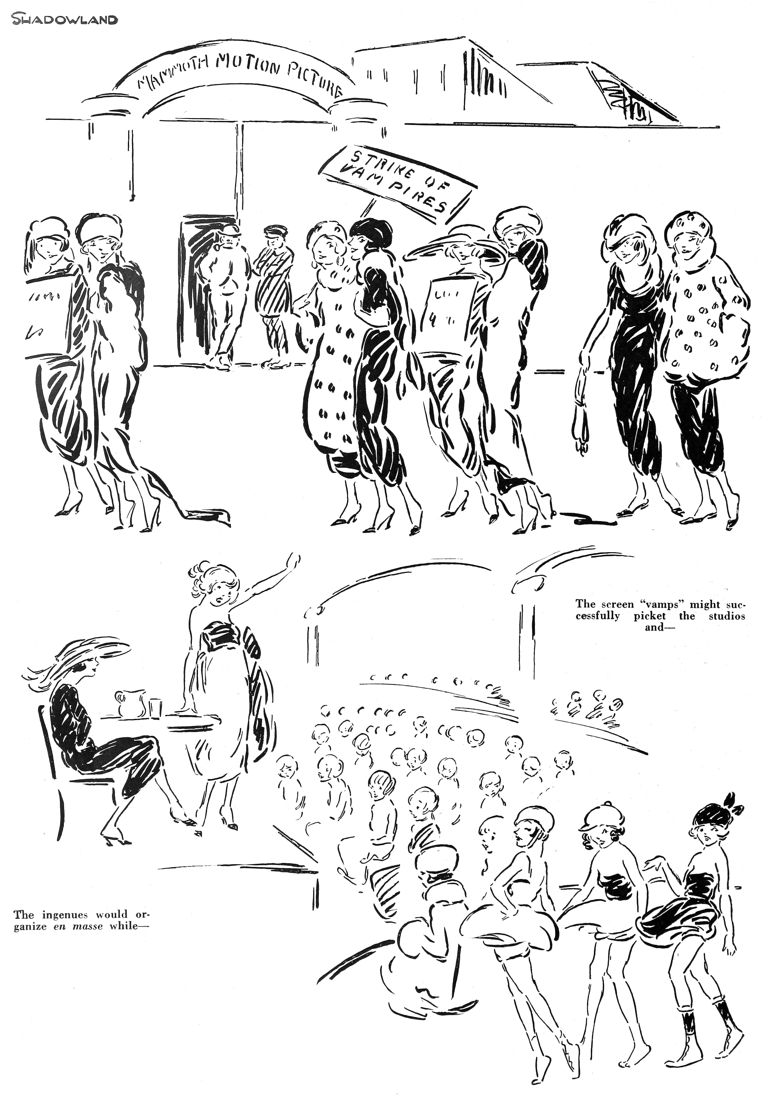 Series of comic sketches by Ethel Plummer imagining film stars on strike in 1919